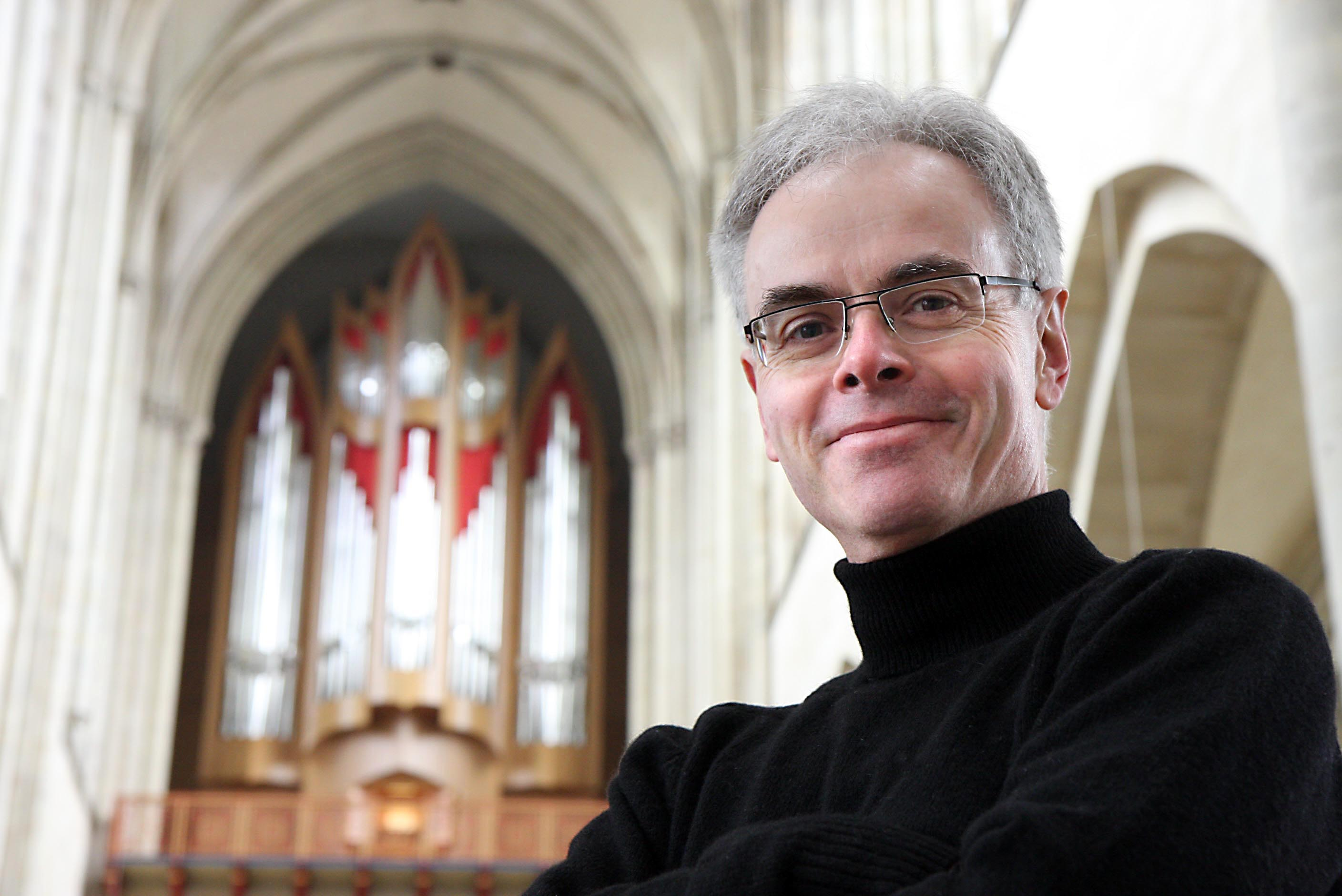 Photo of the organist Barry Jordan in Magdeburg Cathedral